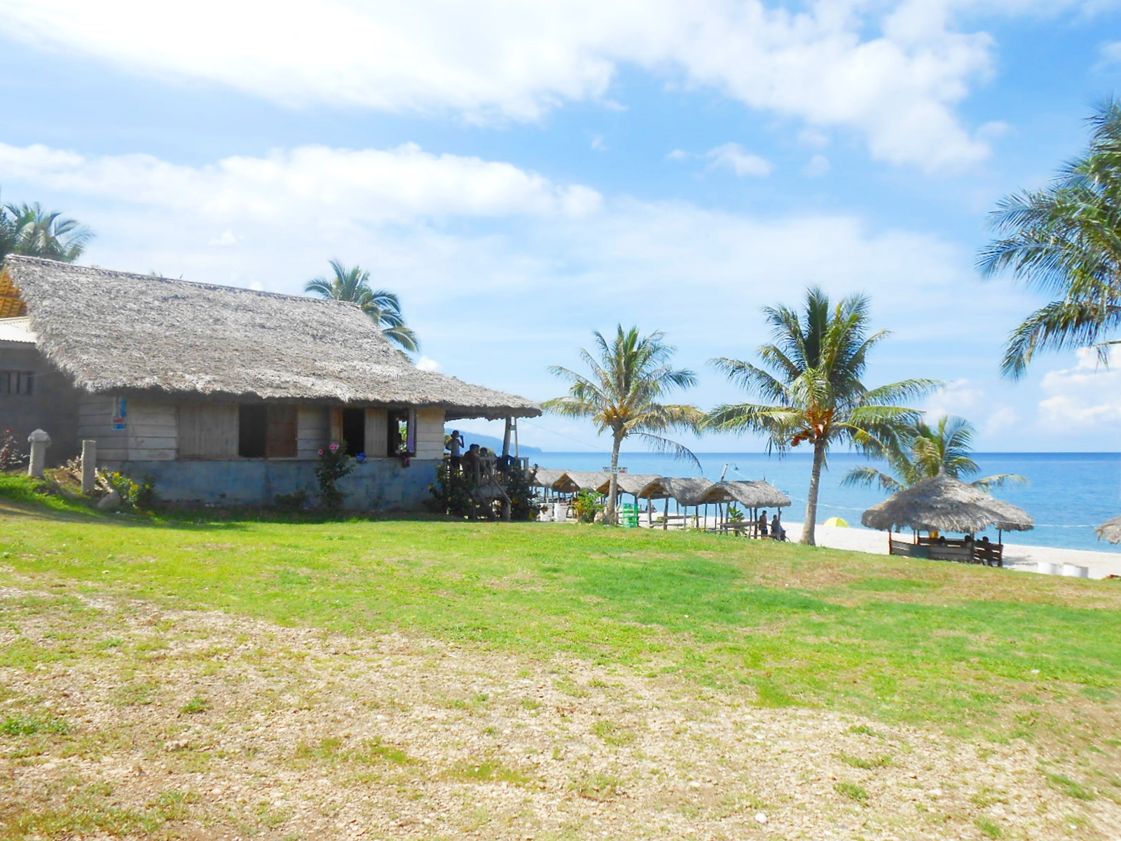 Date taken: May 18, 2013